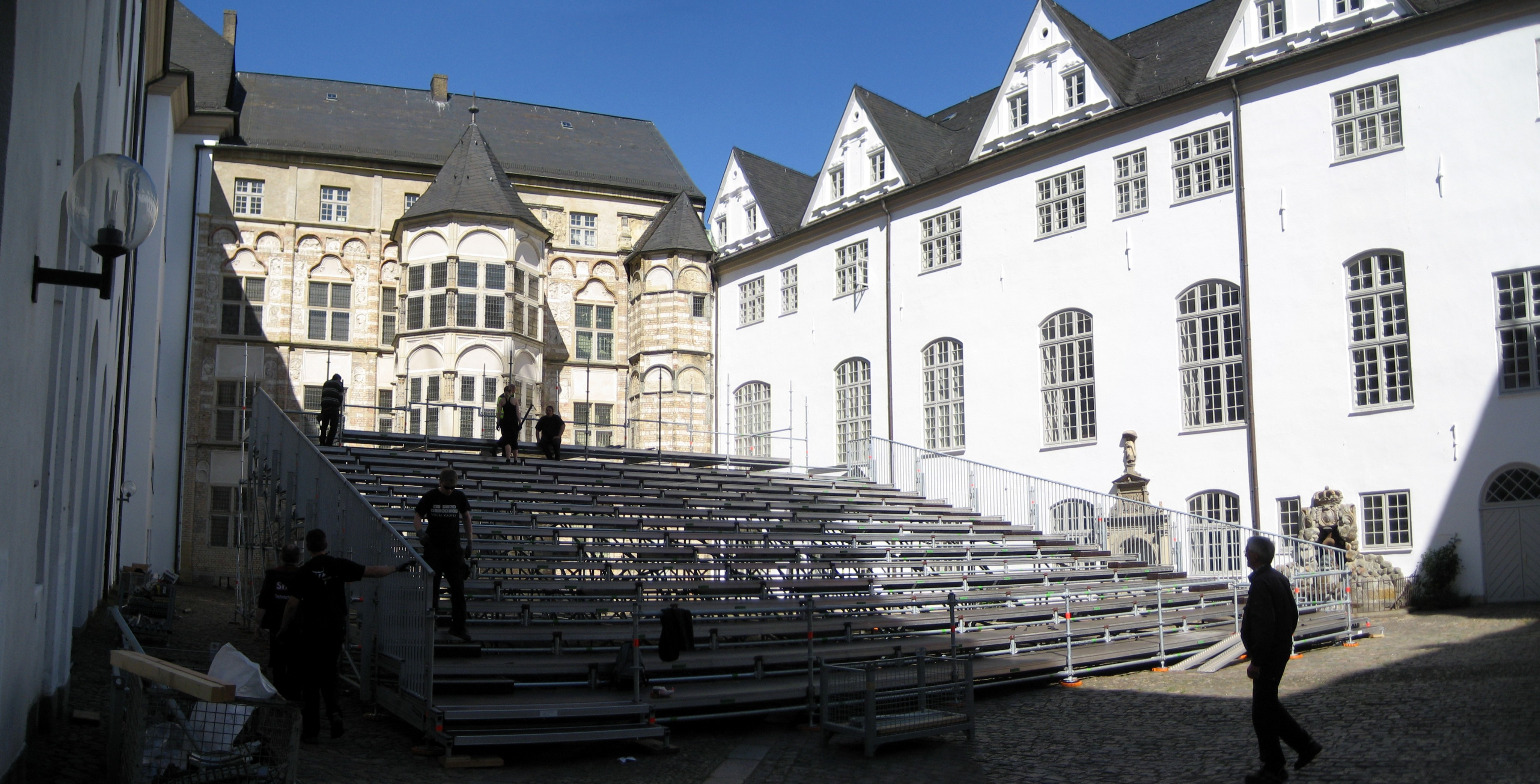 Gottorf Castle, Courtyard